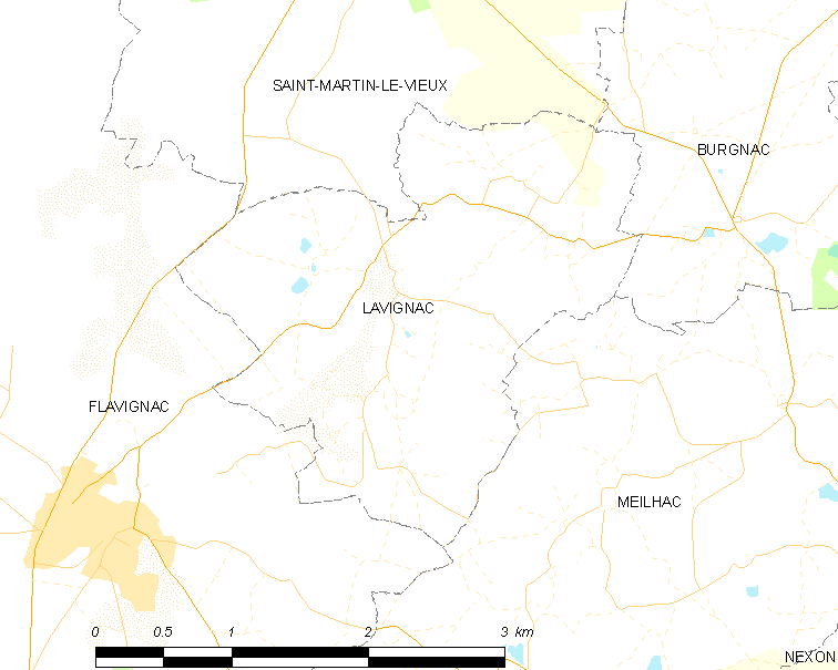 Map of French municipality Lavignac